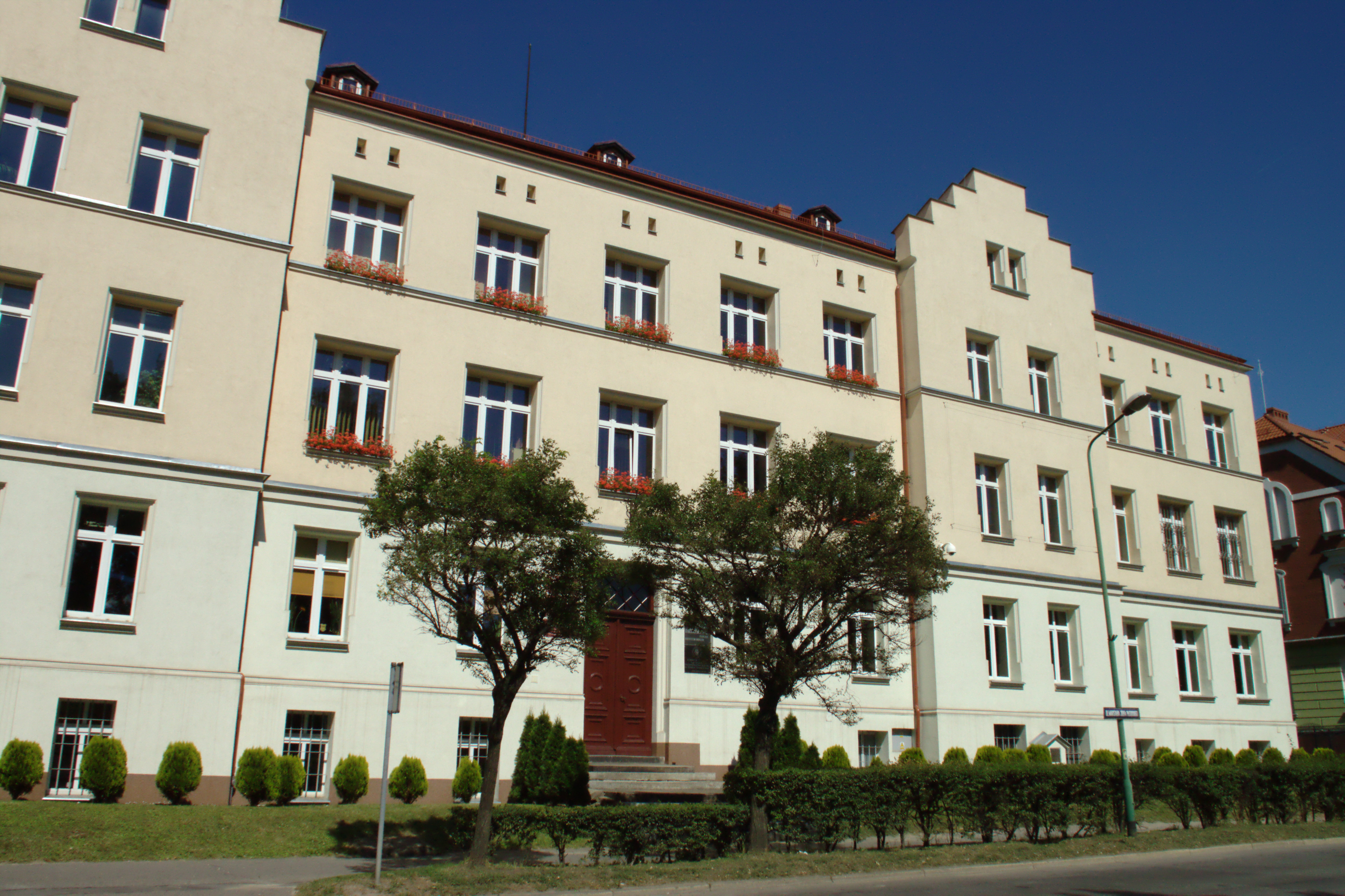 Seat of local Lyceum School in the northern part of the town of Dzierżoniów, Poland